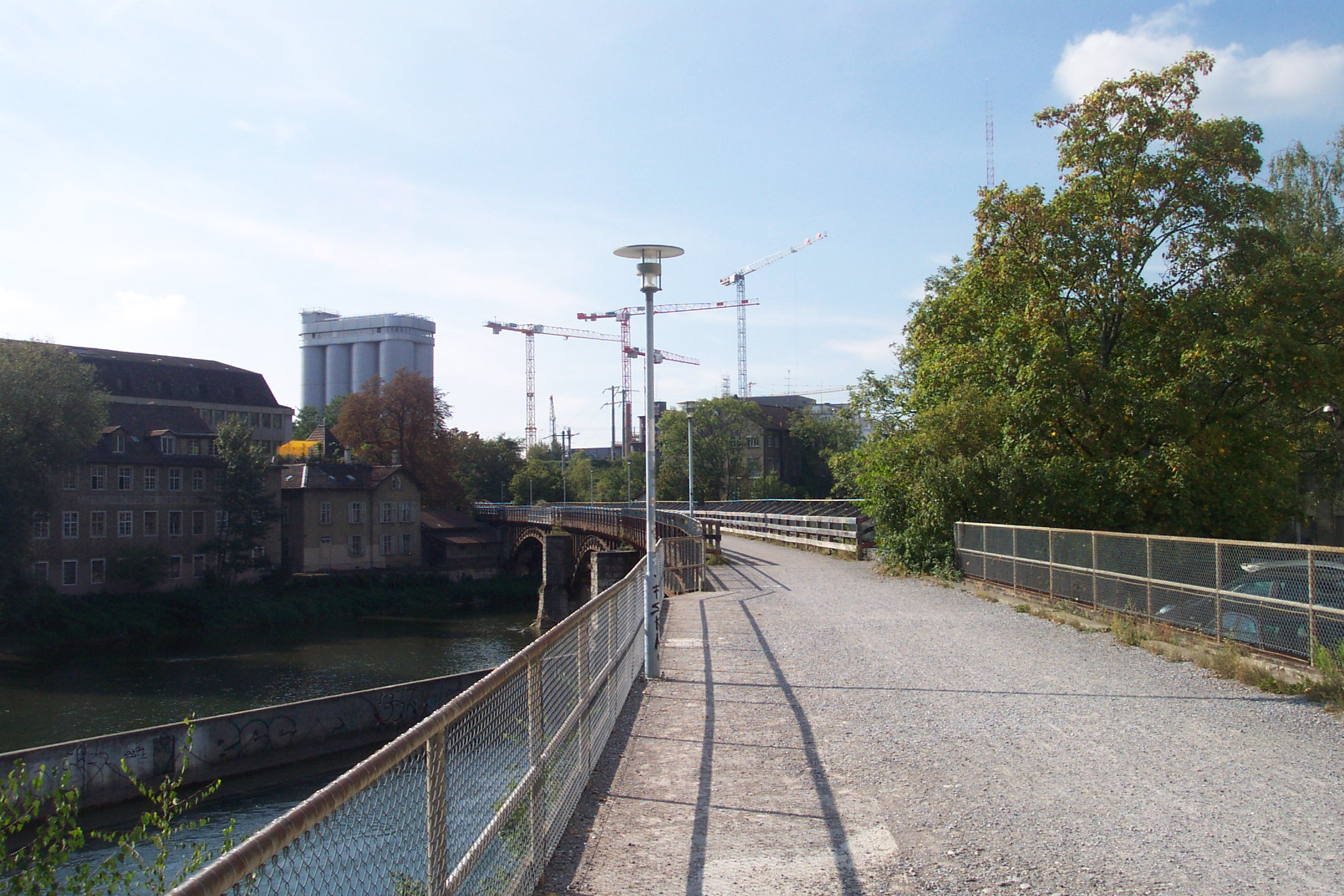 Bridge over the River Limmat on the old Letten Tunnel route, near the former Zurich Letten railway station. For more information, see Wikipedia article Zurich Letten railway station.